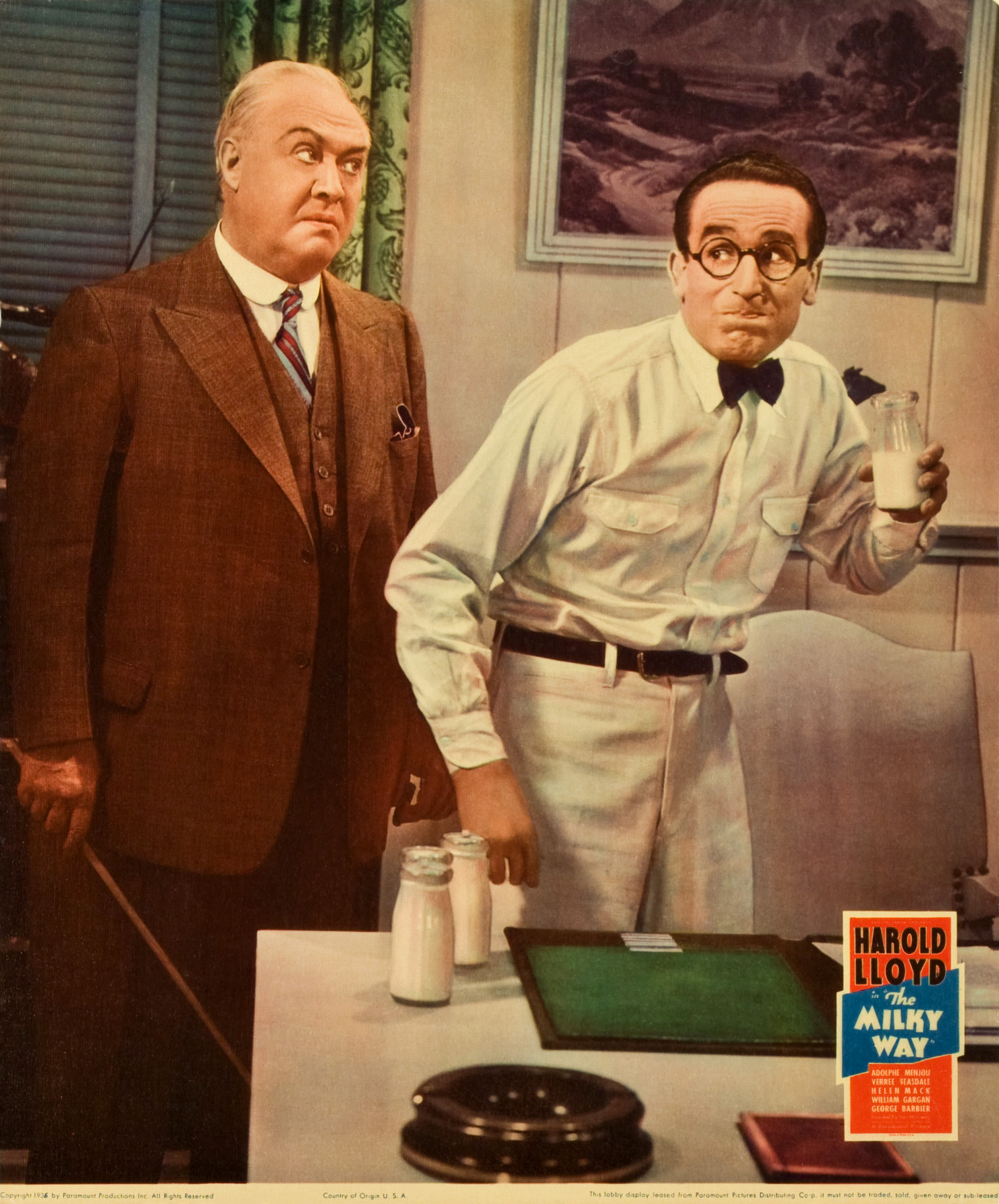 George Barbier (left) and Harold Lloyd in The Milky Way (1936) - publicity poster